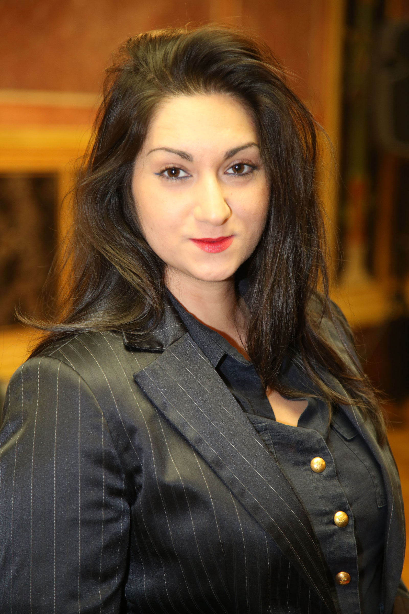 Horvath.Gilda-150407-6472